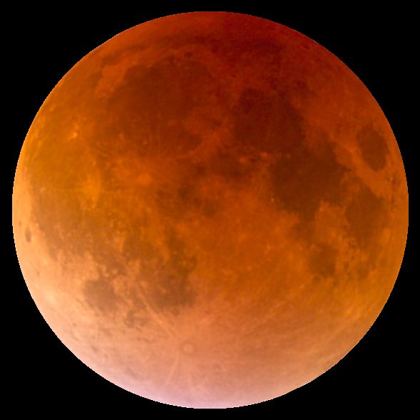 Total lunar eclipse, taken from California